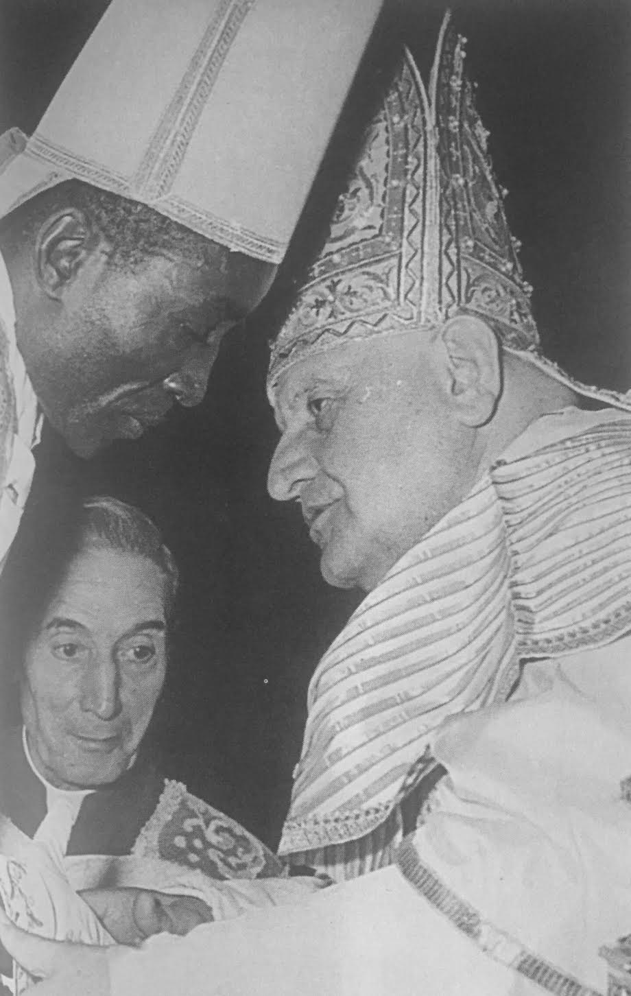 Pope John XXIII embraces the newly-ordained Bishop Dery during the episcopal ordination ceremony in St. Peter's Basilica, Rome, 9 May 1960.